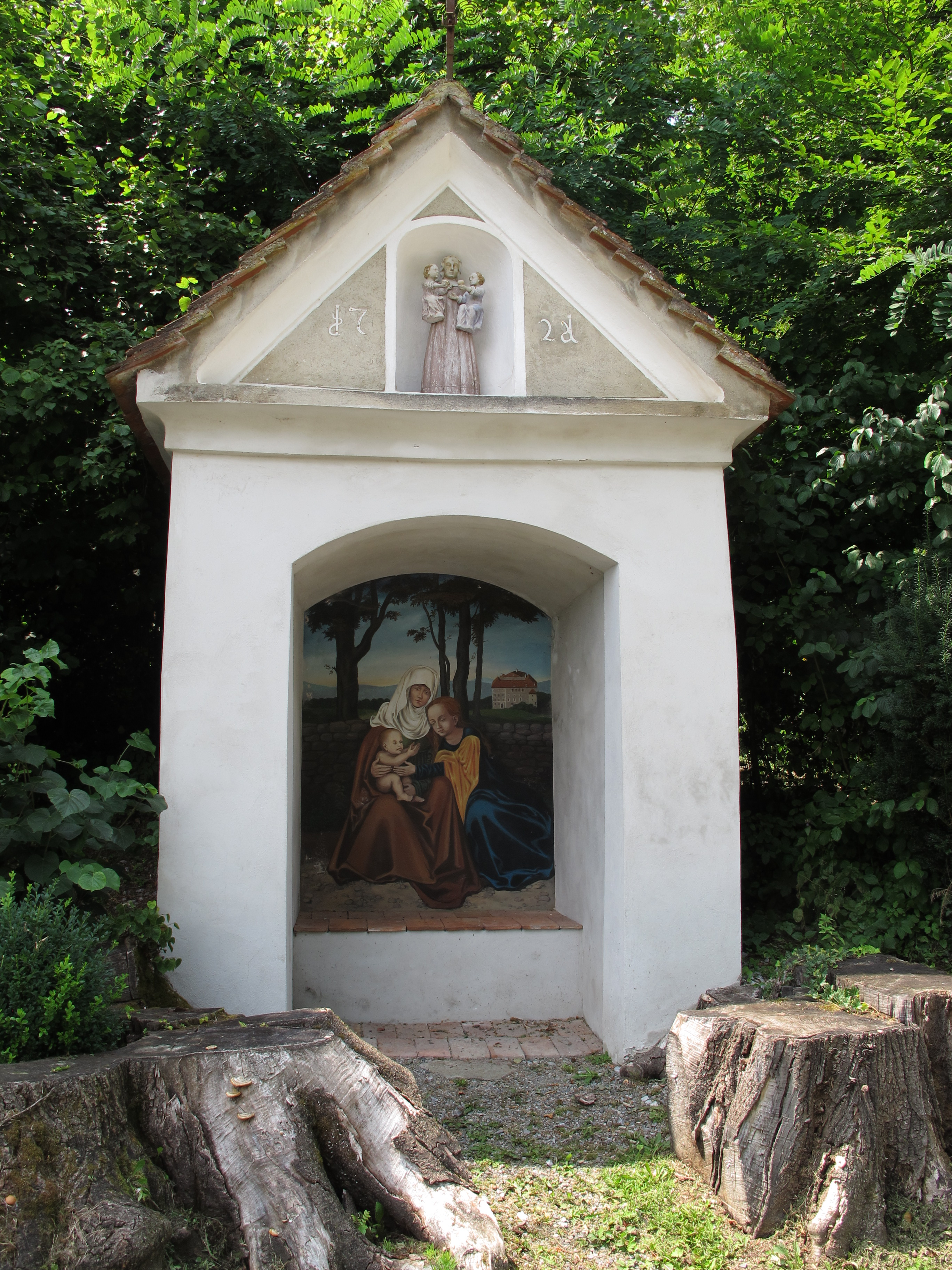 Chapel Schloß Gutenberg